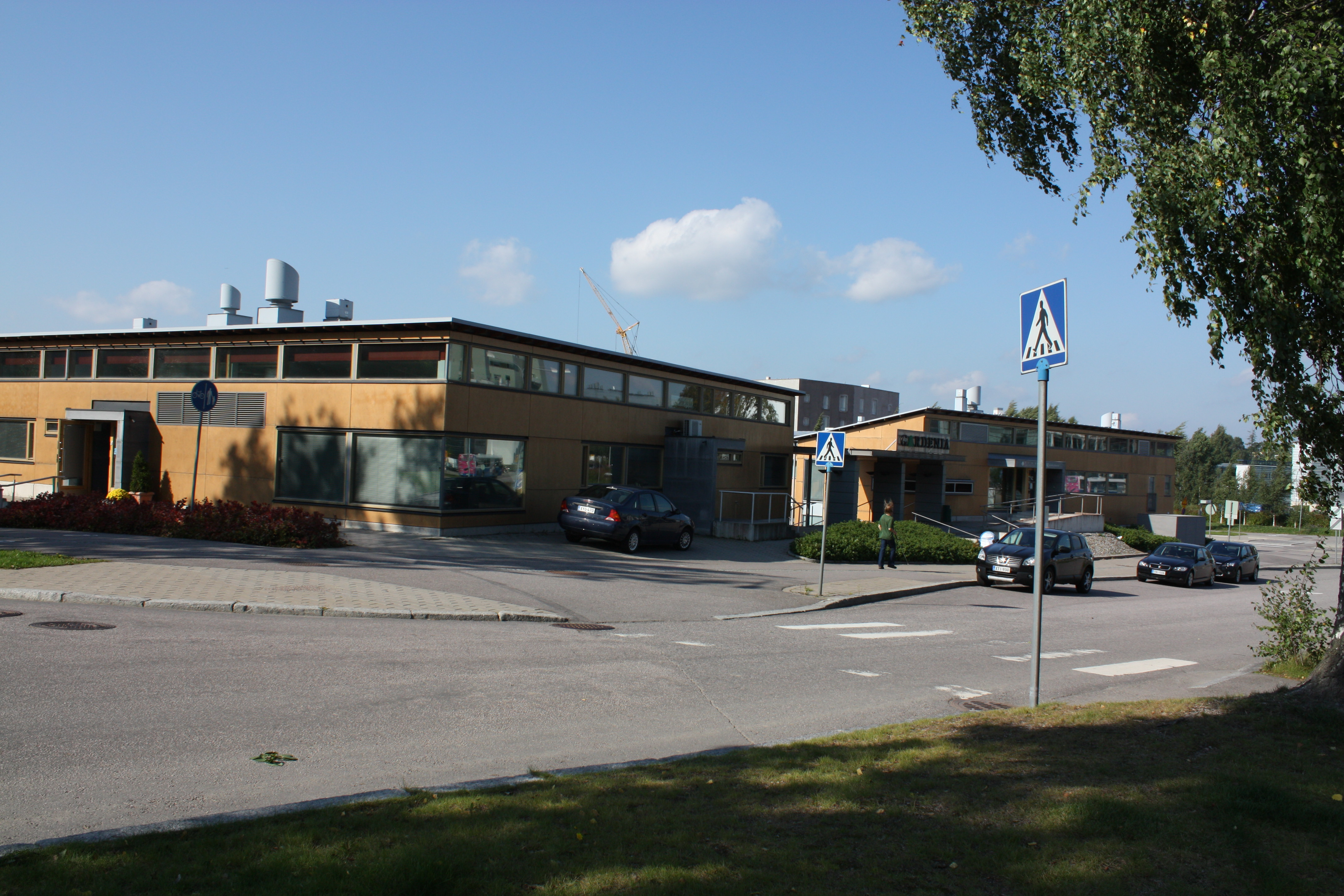 The entrance to the Gardenia-Helsinki botanical garden